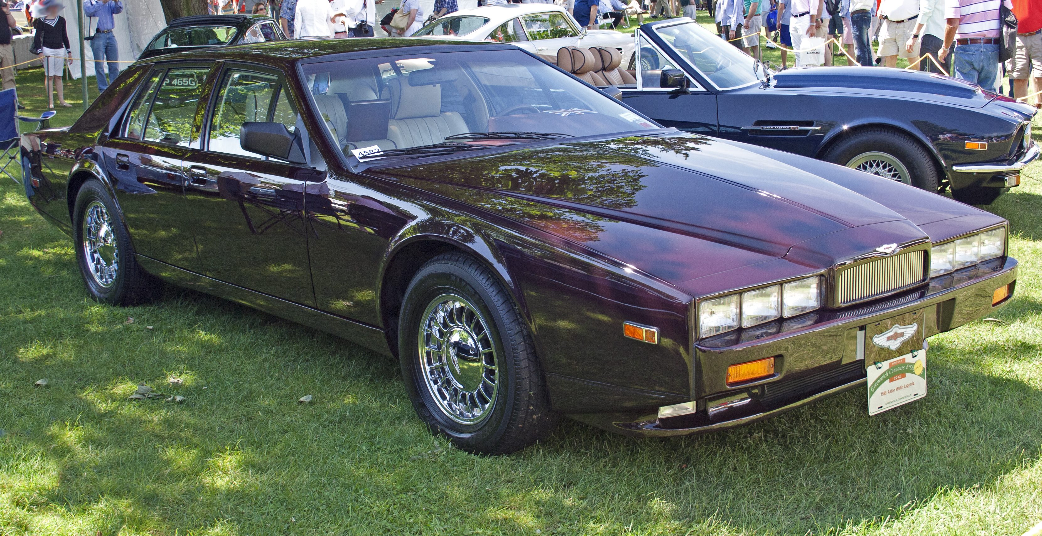 1989 Aston Martin Lagonda at the 2012 Greenwich Concours d'Elegance. Shame about the chromed wheels.